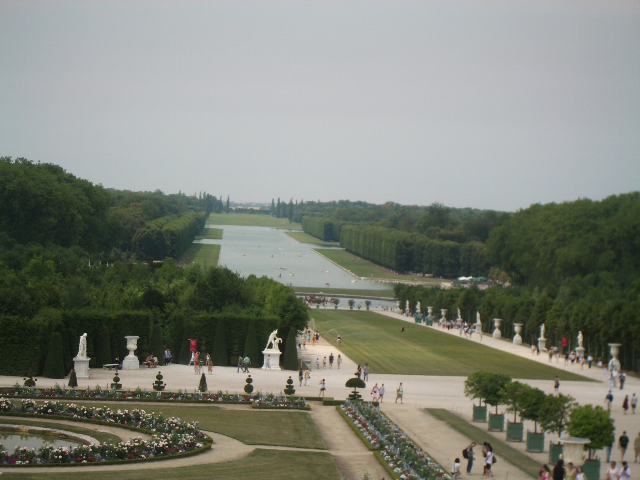 The Château de Versailles (or in English, the Palace of Versailles) is a royal château located in Versailles, 15 km from Paris. For more pictures see Category:Château de Versailles.